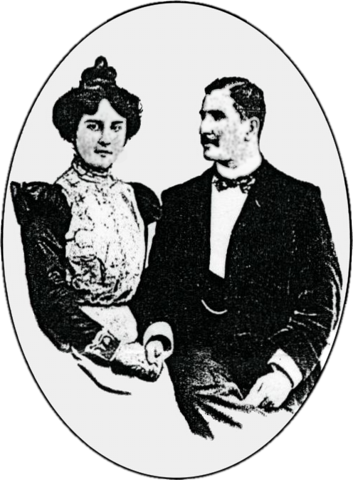 Matthew Phipps & Carolina Shiel, The Candid Friend, 1901.